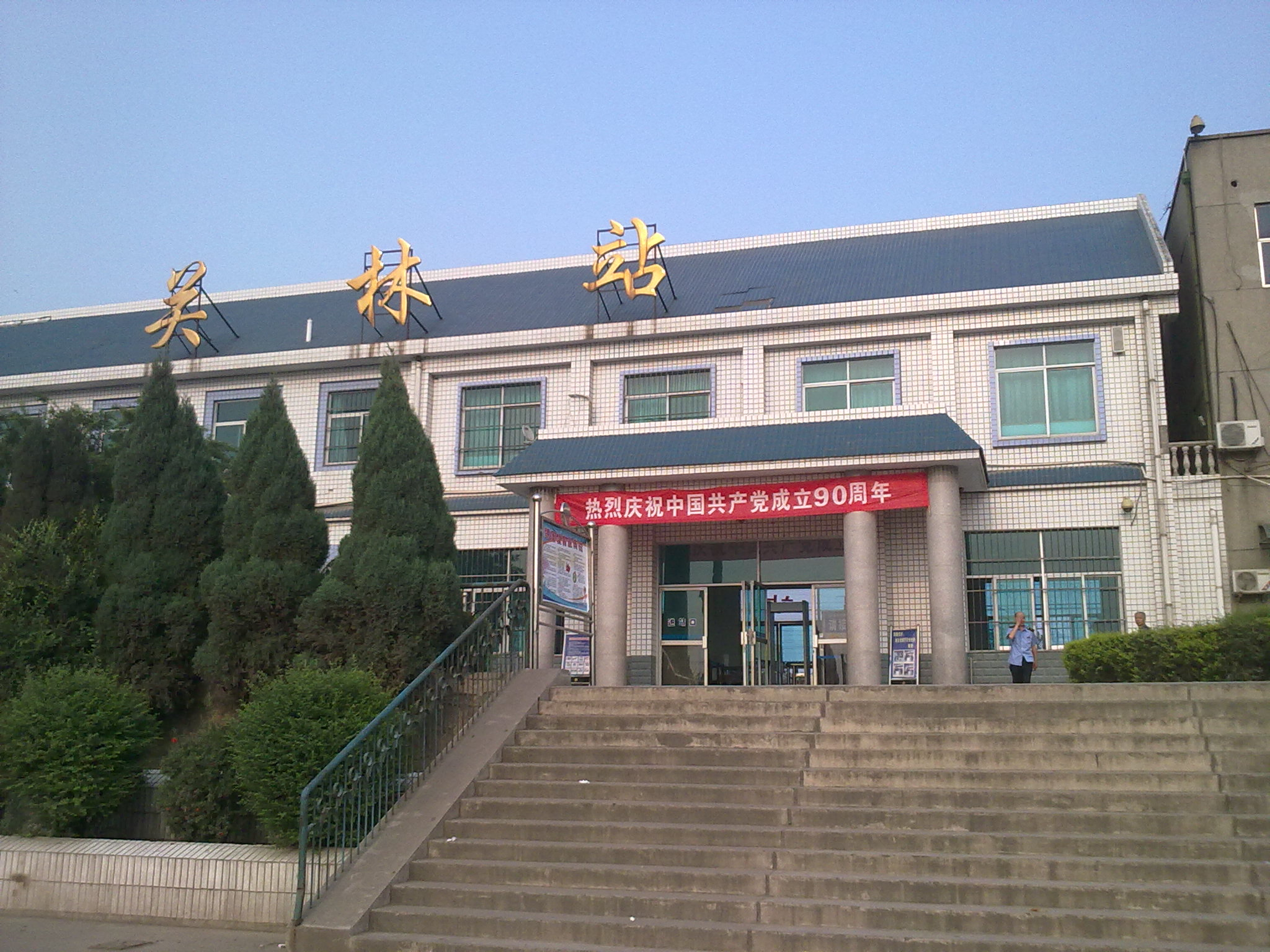 Guanlin railway station